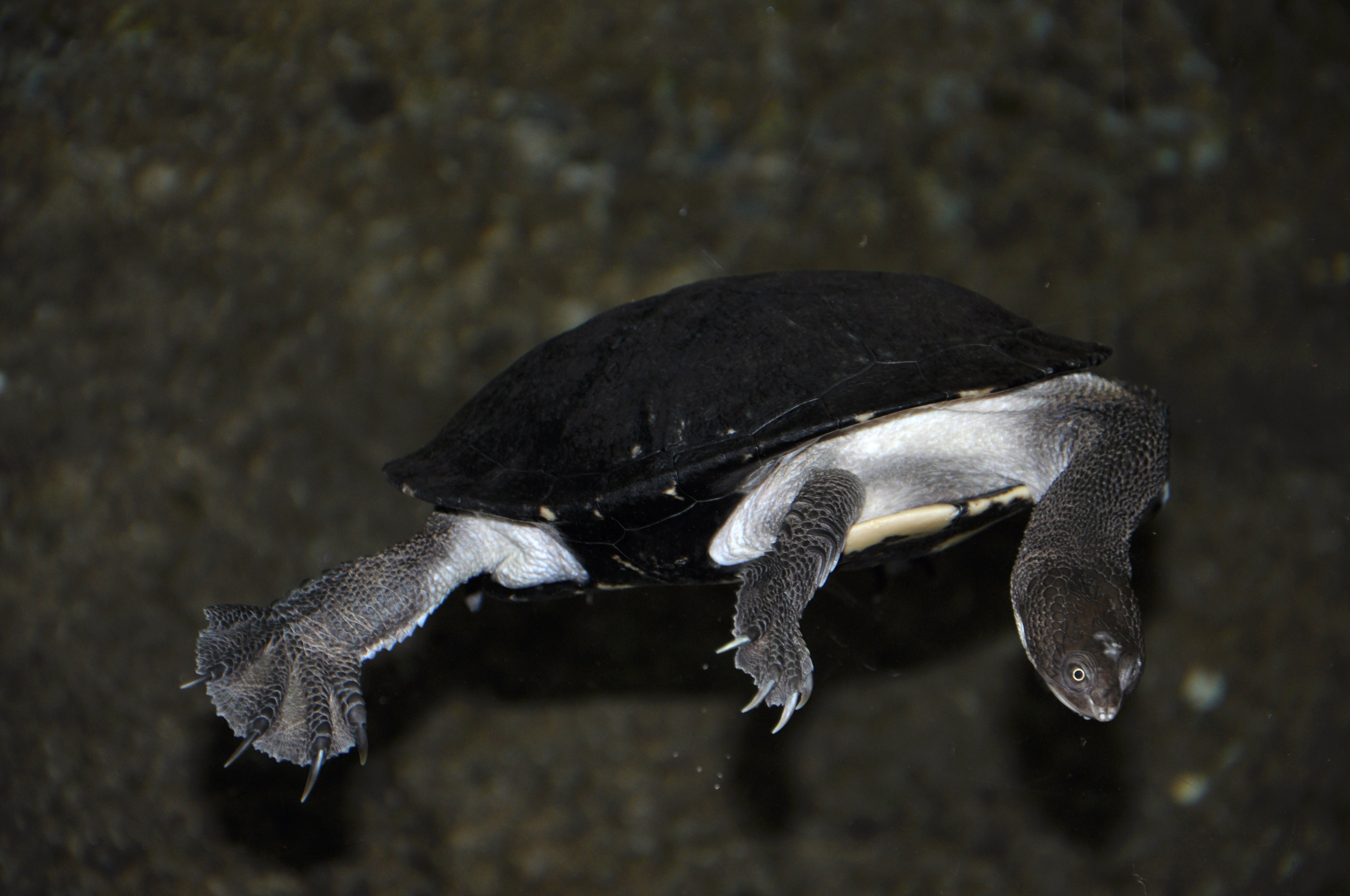 Common snakeneck turtle, Australian long-necked terrapin